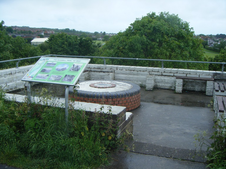 Rodwell Trail, WW2 Bofors Gun Emplacement